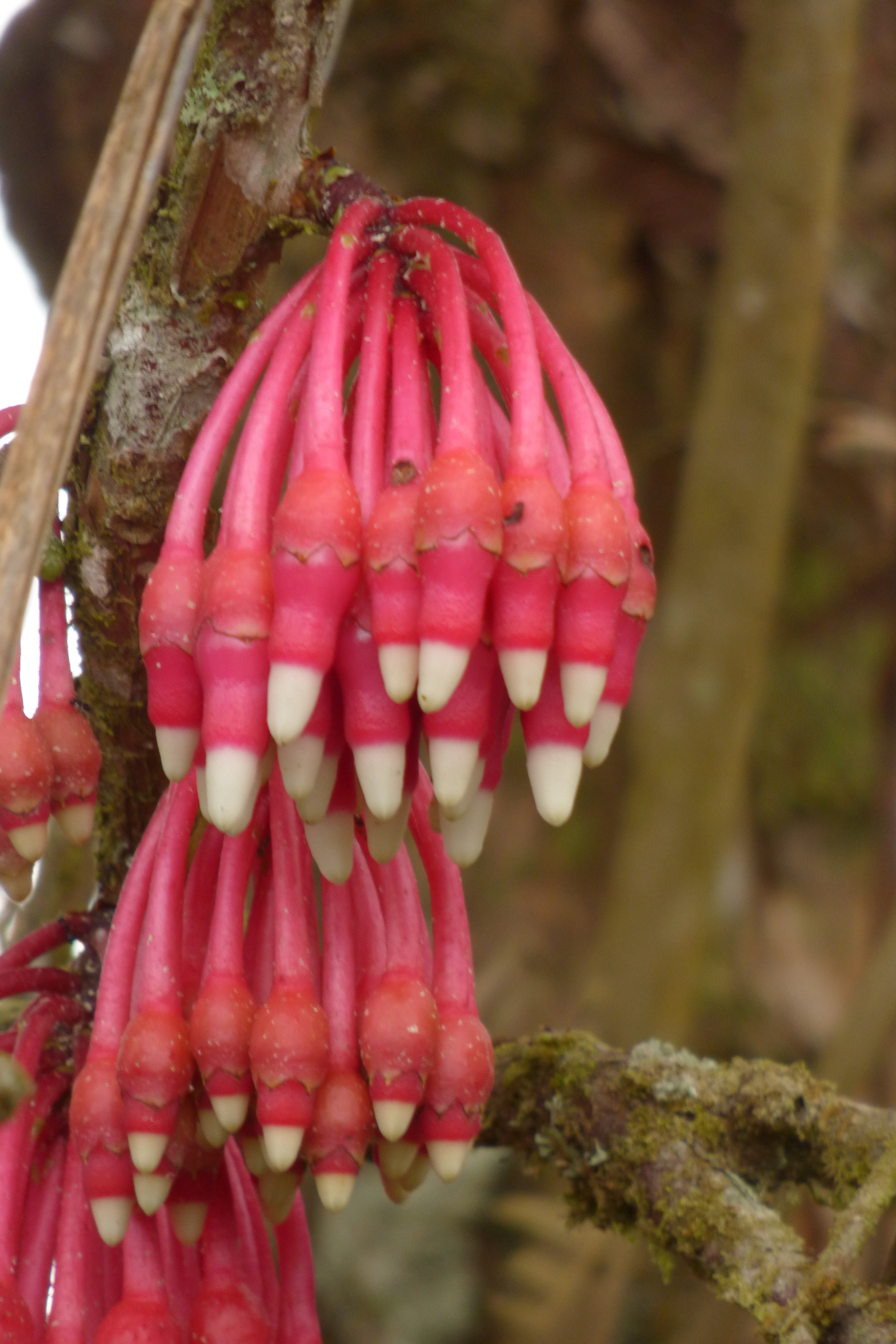 Satyria sp.